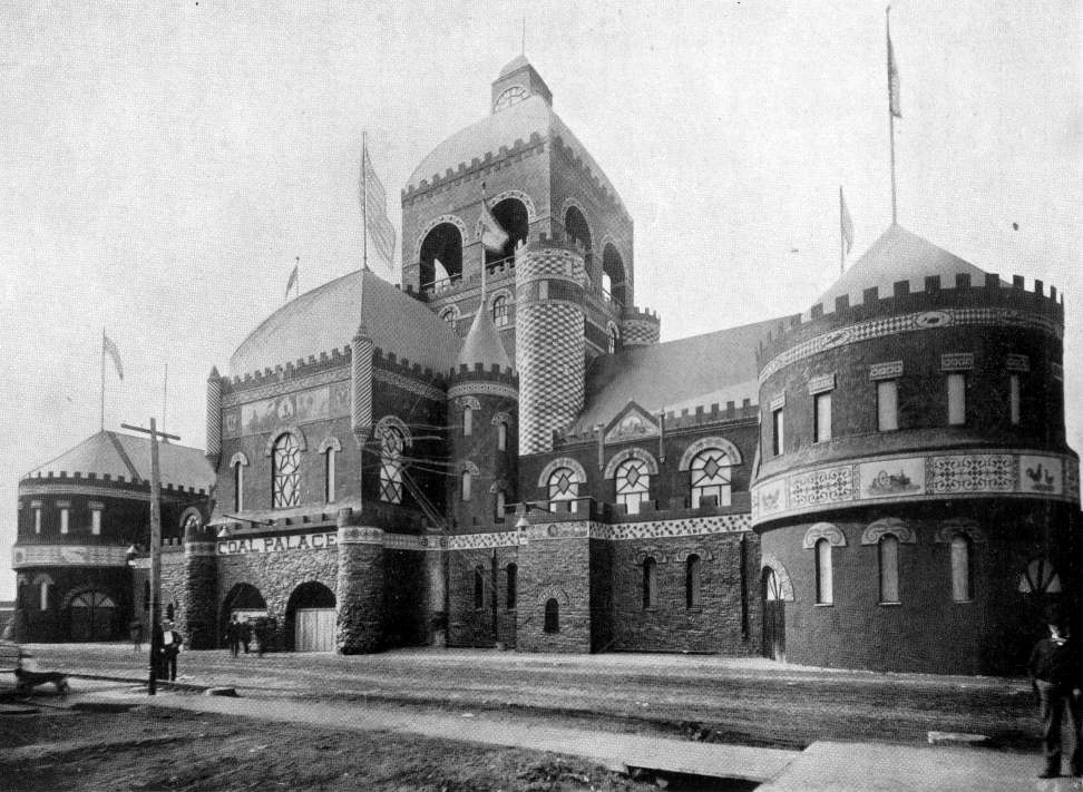 The Coal Palace, seen from the north.